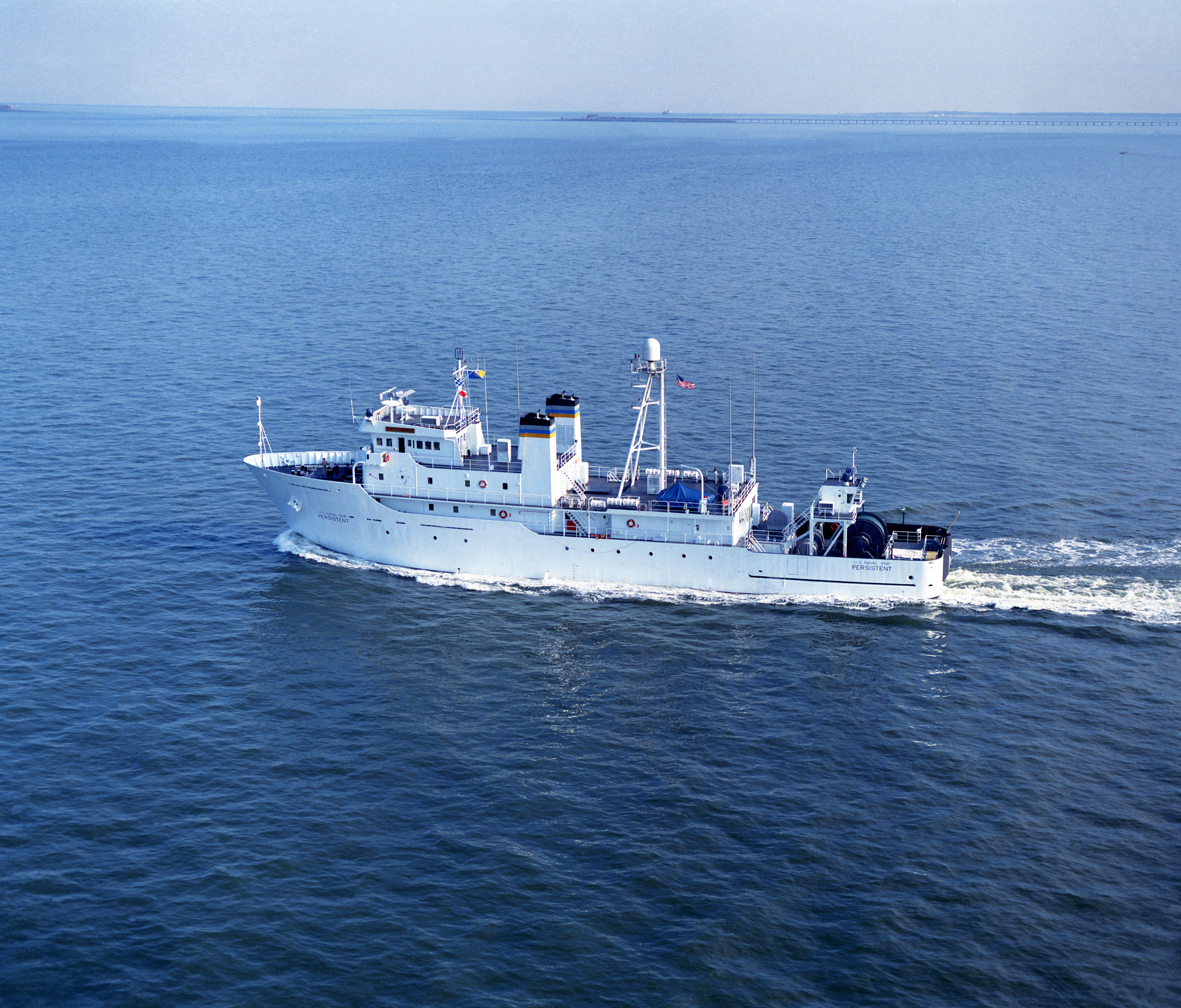 An elevated port bow view of the ocean surveillance ship USNS PERSISTENT (T-AGOS-6) underway.